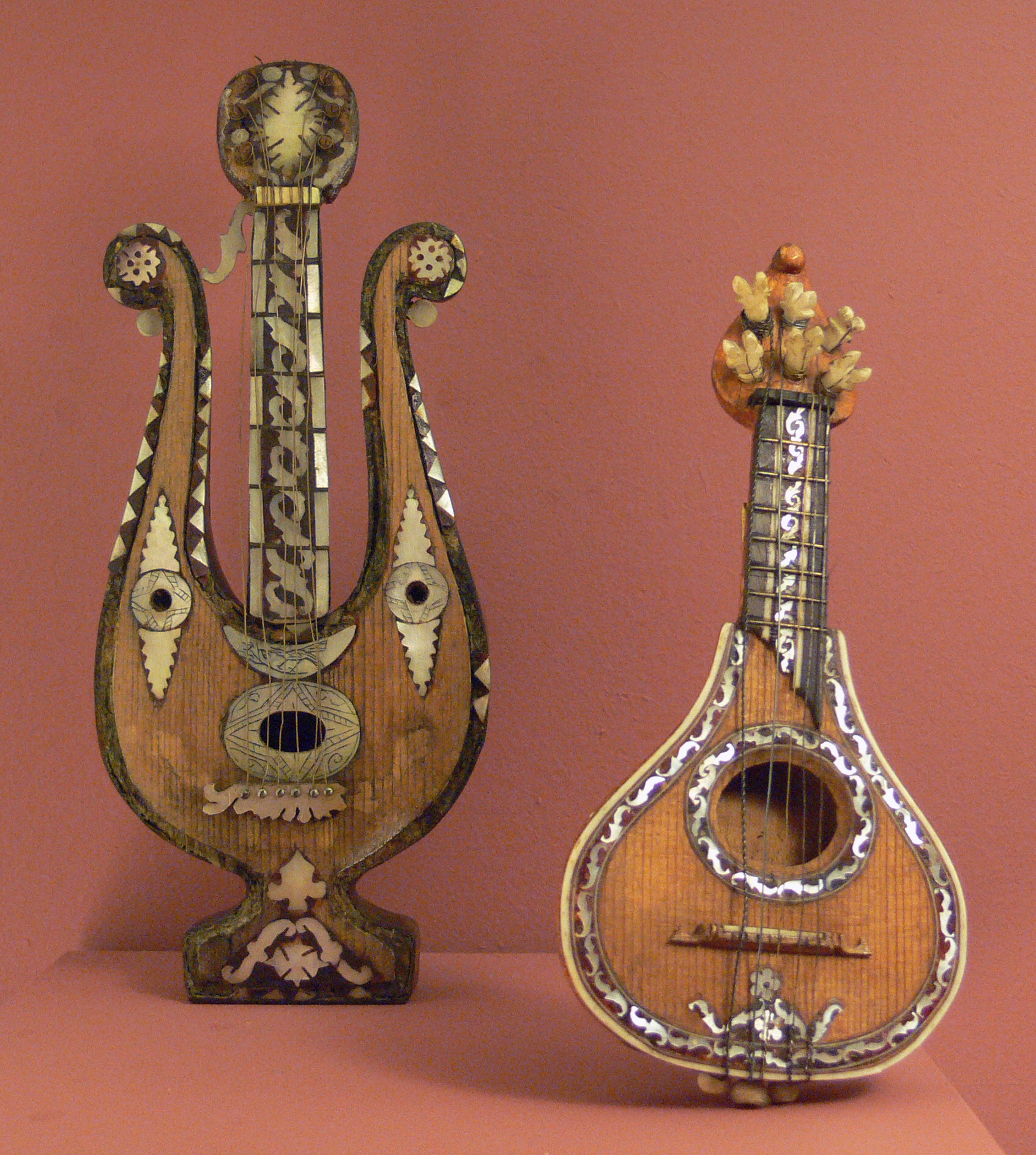 Finimenti (Nativity scene decorations), from Naples, 2nd half of the 18th century (musical instruments partly from France). Krippensammlung des Bayerischen Nationalmuseums (Collection of nativity scenes at the Bavarian National Museum), Munich, Germany.